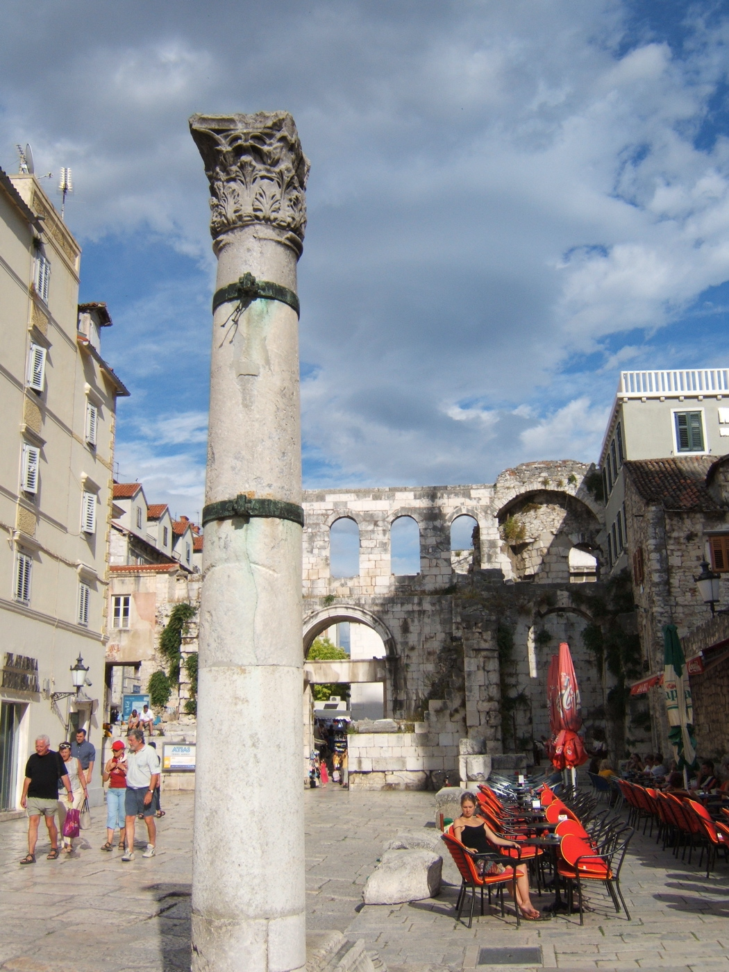 Part of Diocletian's Palace. Built 306 A.D.A Column